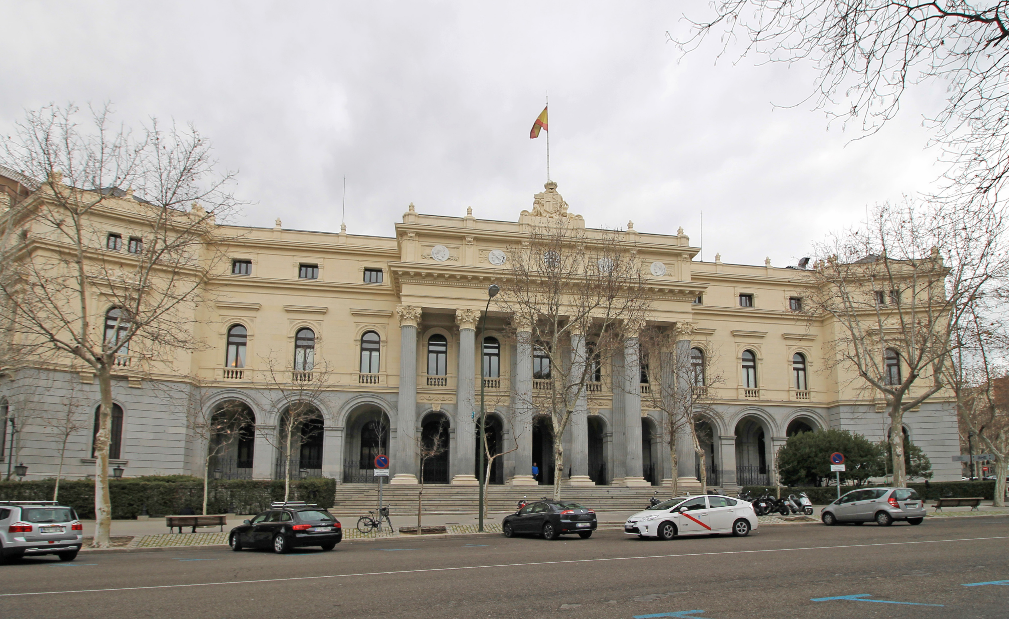 Façade of the Stock Exchange Building of Madrid (Spain).